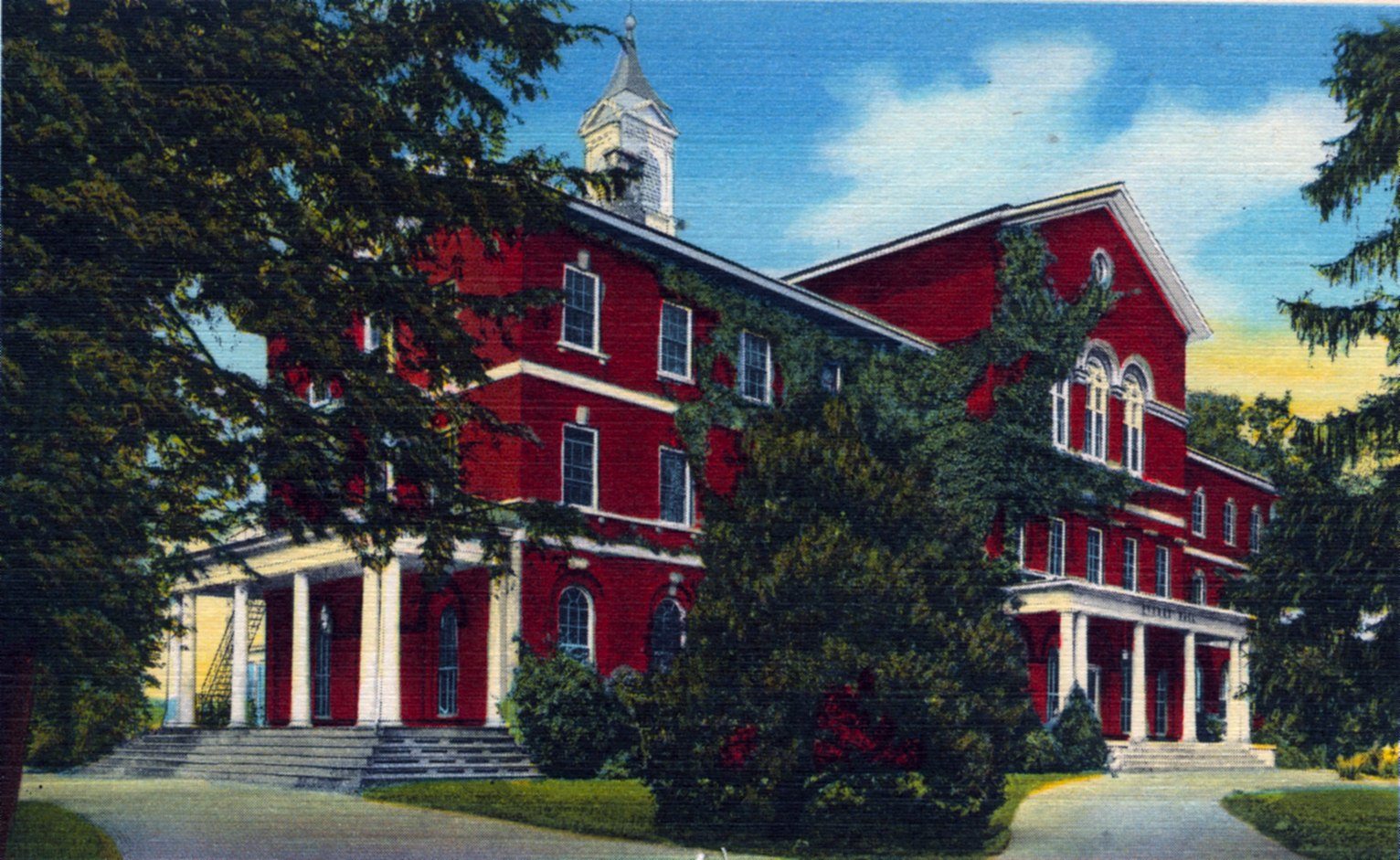 Fisher Hall c. 1940